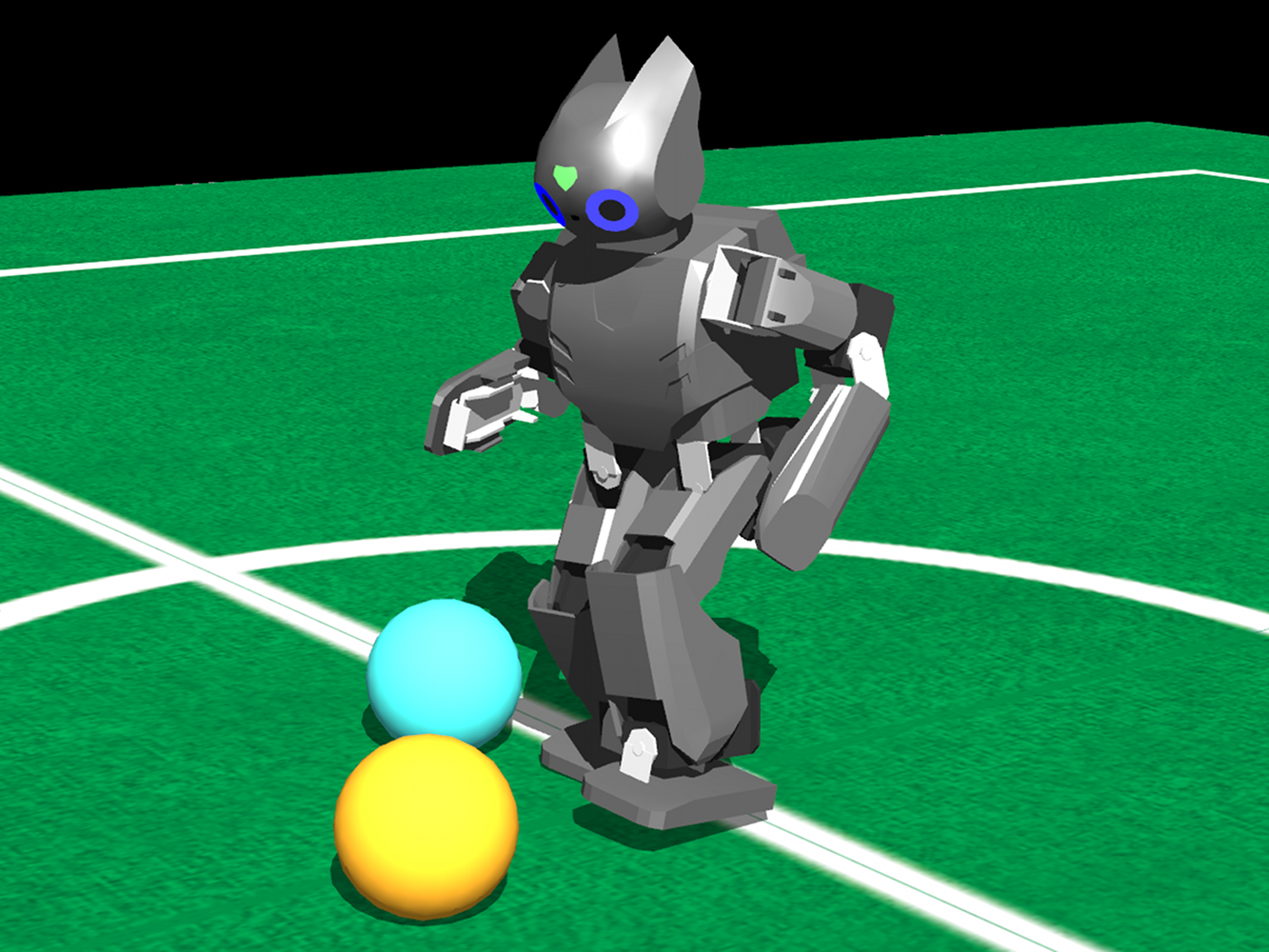 3D Virtual model including realistic physics parameters of a Robotis DARwIn-OP in Webots (robotics simulator)